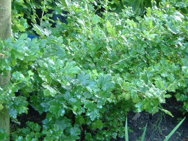 A Gooseberry bush with fruit. There is a smaller detail crop of this image: Image:Gooseberry Ribes grossularia (detail).JPG